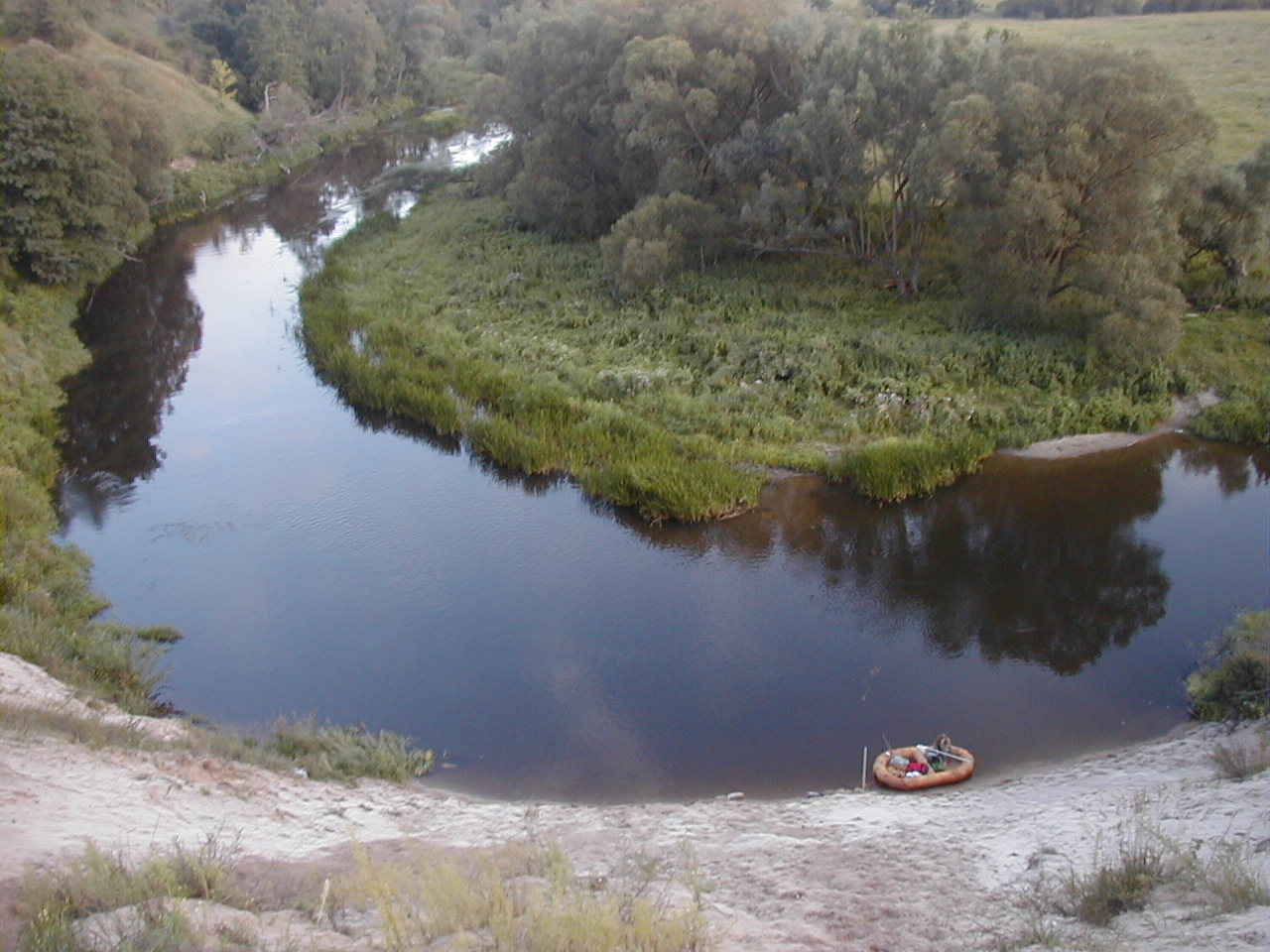 Angrapa River. Kaliningrad Oblast, Maykovskoye district